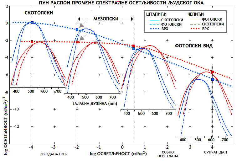 ПРОМЕНА СПЕКТРАЛНЕ ОСЕТЉИВОСТИ ЉУДСКОГ ОКА У РАСПОНУ ПРИЛАГОЂАВАЊА